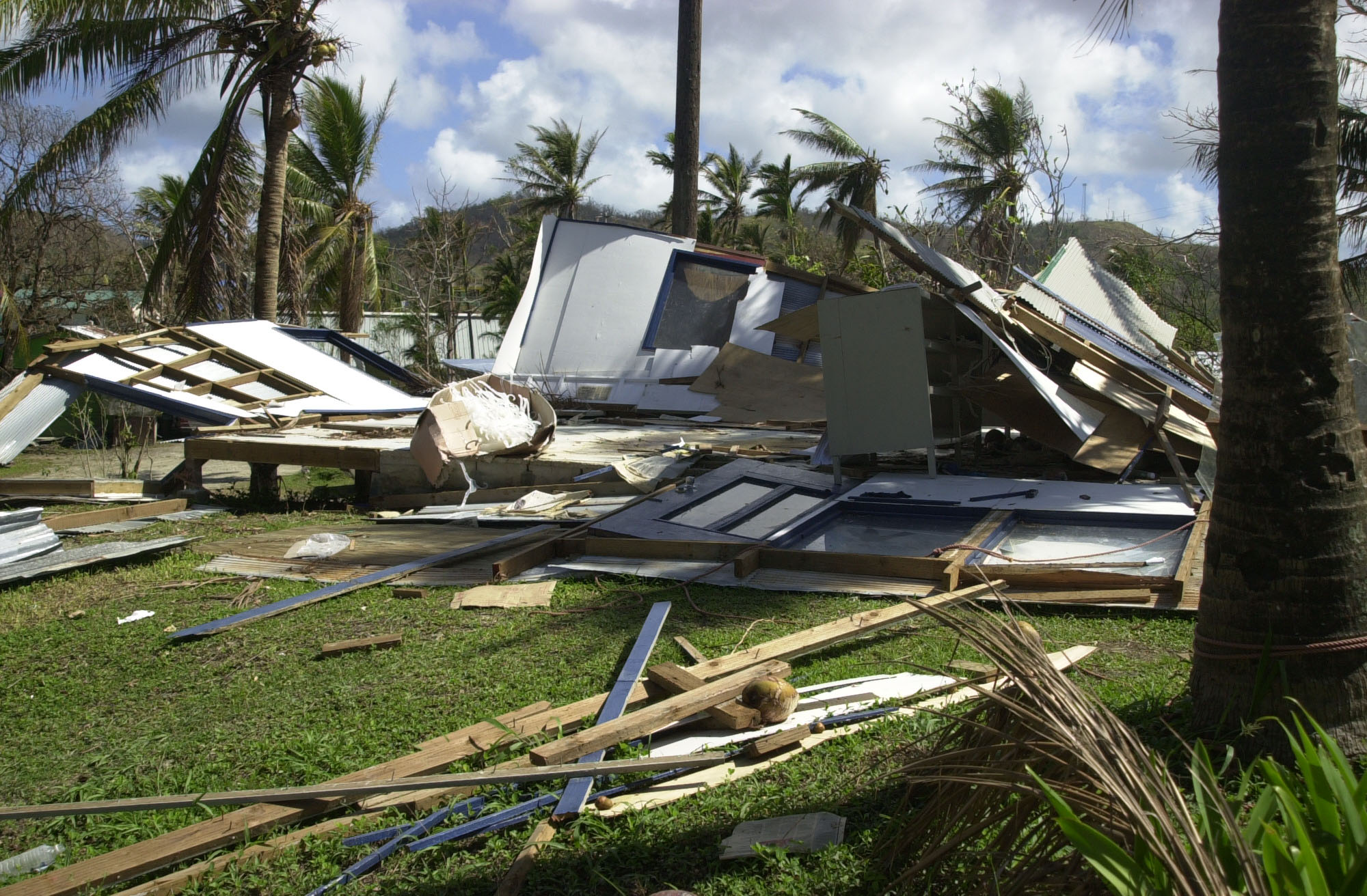 Yap, FSM -- Homes and businesses were destroyed across the island when Typhoon Sudal sent high winds and waters ashore. FEMA Photo / John Shea